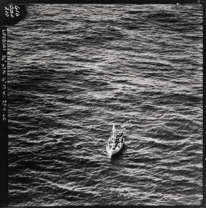 Aerial photograph of lifeboat from the SS City of Benares. The passenger liner was carrying children being evacuated from Britain to Canada when it was sunk in a U-Boat attack on the convoy in which it was travelling. Only 13 of the 90 children on board survived and government evacuation of children to the Dominions such as Canada, New Zealand and Australia (the CORB scheme) immediately ceased. Our Catalogue Reference: AIR 27/149 This image is from the collections of The National Archives. Feel free to share it within the spirit of the Commons. For high quality reproductions of any item from our collection please contact our image library.